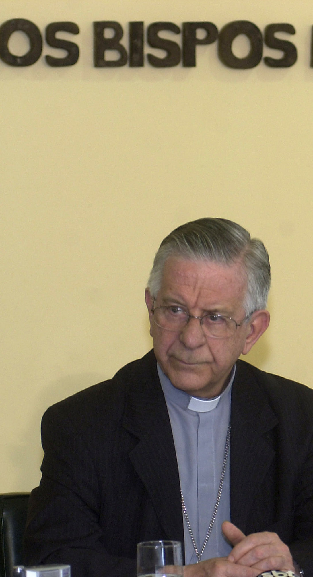 Geraldo Majella Cardinal Agnelo, archbishop of Salvador.